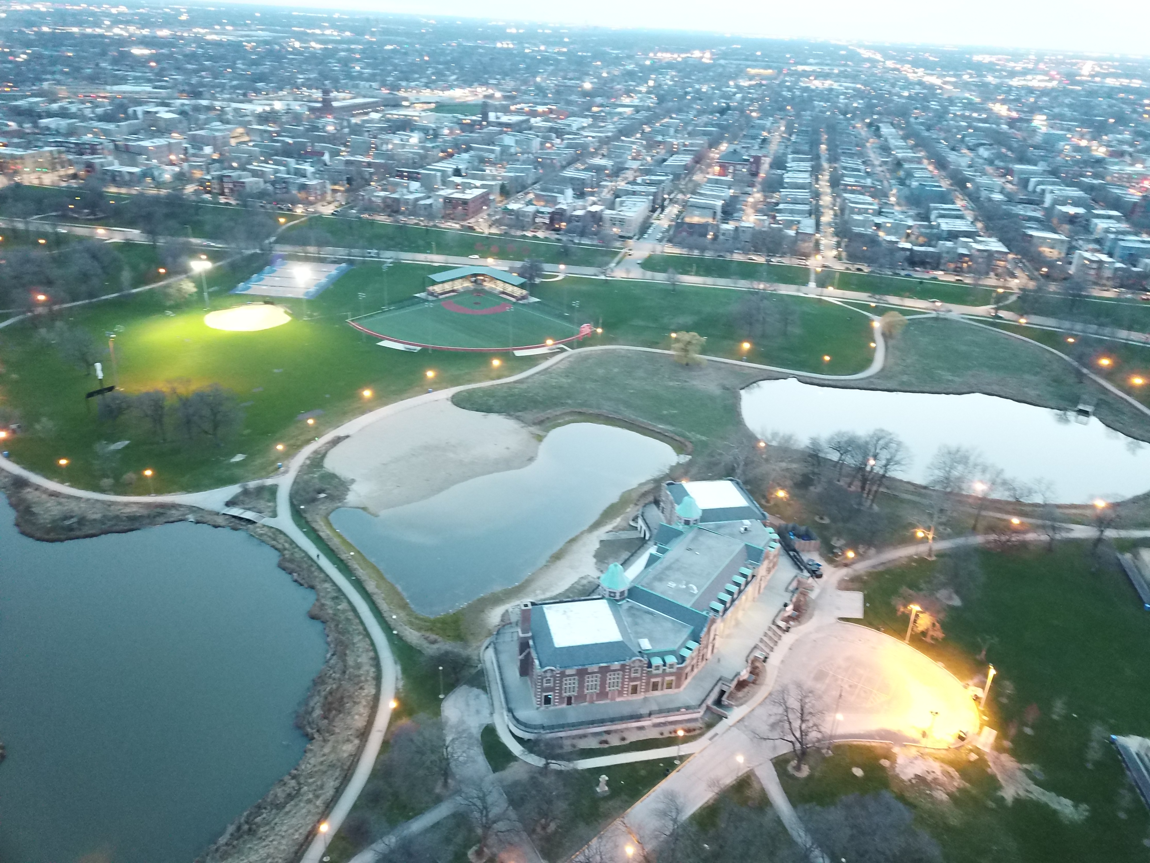 Aerial photo of Humboldt Park's Field House and Refectory taken by a drone on April 10, 2020.